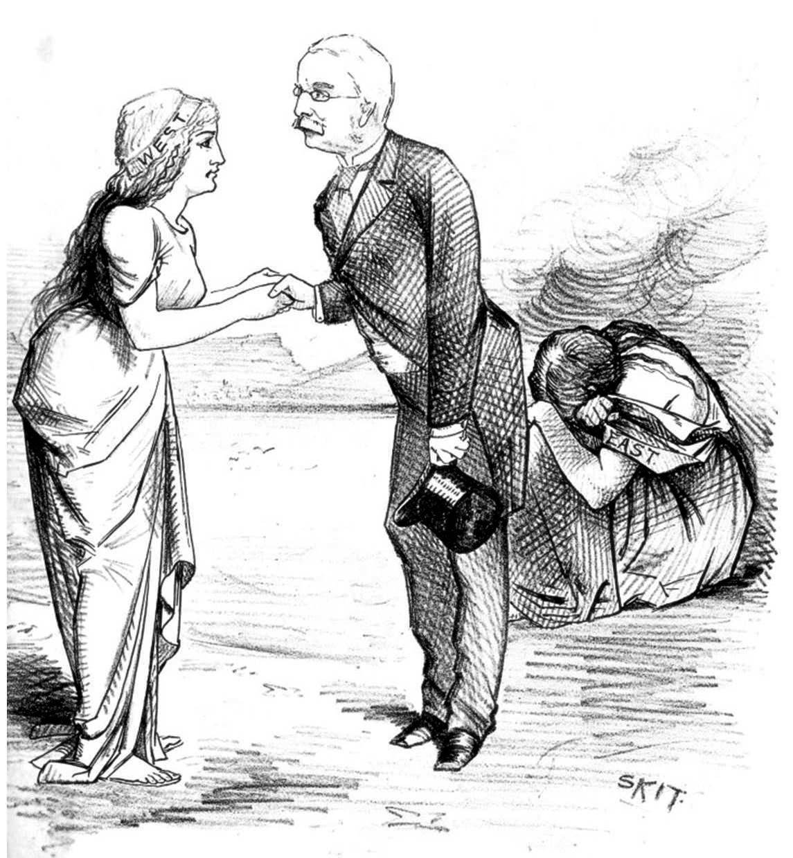 Cartoon from the Lantern newspaper, Cape Town, by Charles J Barber ("Skit"). The eastern province's feeling of neglect, even by the British Governor Bartle Frere, are shown in this 1878 cartoon by the pro-imperialist Lantern newspaper.